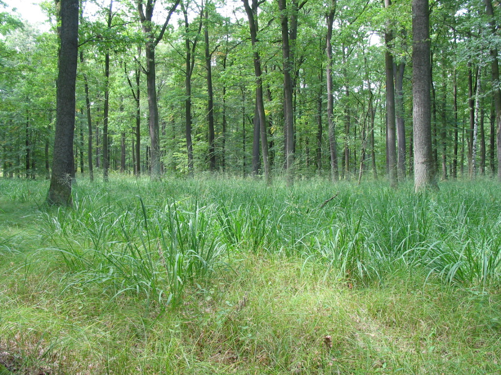 Nature Reserve U spálené in Litovelské Pomoraví protected landscape area in okres Olomouc (Czech Republic). With grass Molinia arundinacea or M. caerulea in front of.